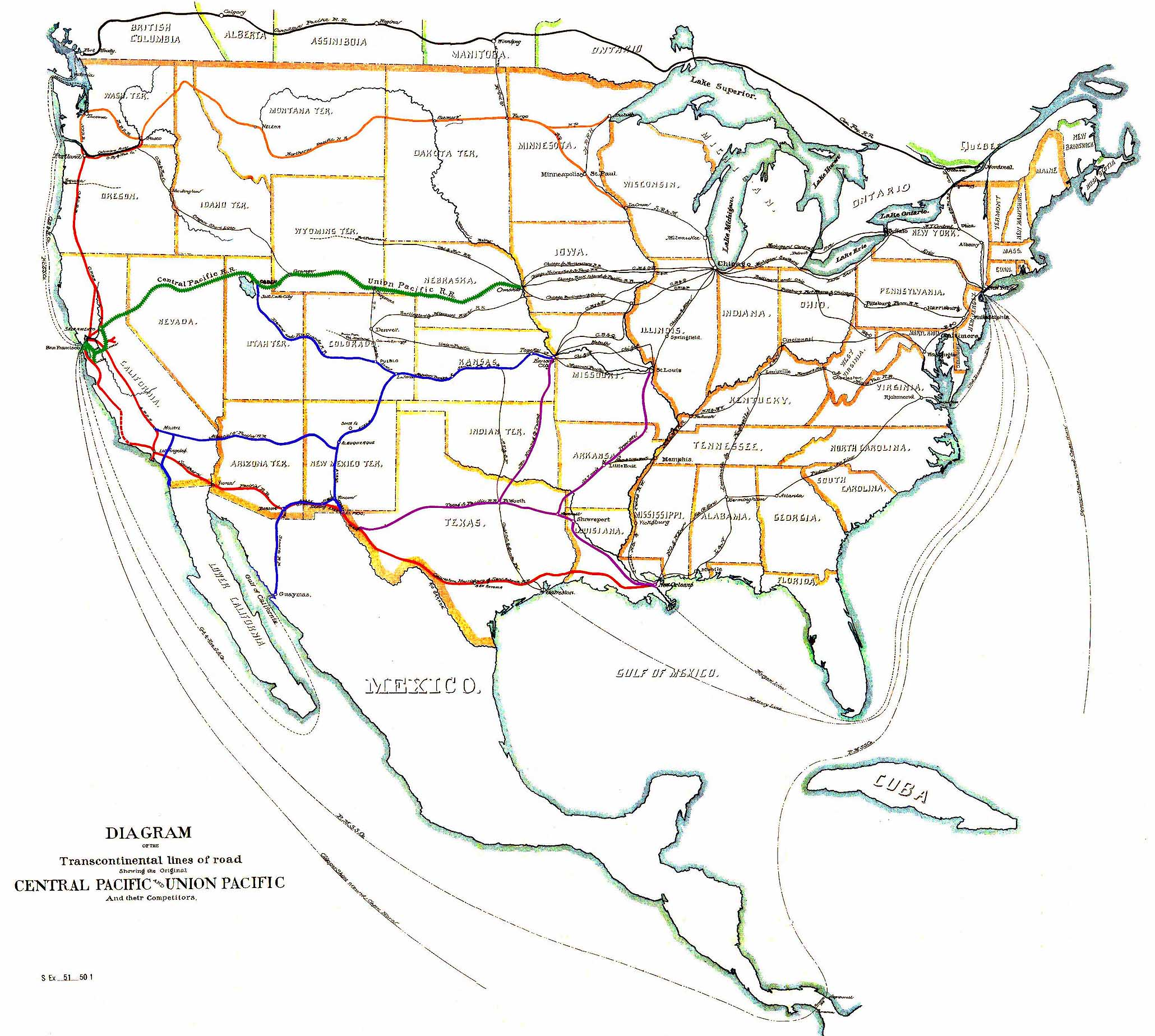 Composited digital restoration of the 1887 map entitled Diagram of the Transcontinental lines of road Showing the Original Central Pacific and Union Pacific And their Competitors. Scanning, digital reconstruction, compositing, and restoration by (uploader)